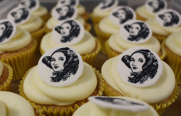 Cupcakes made for the Ada Lovelace Wikipedia events at University of Oxford’s IT Services, Bodleian Libraries and Wikimedia UK